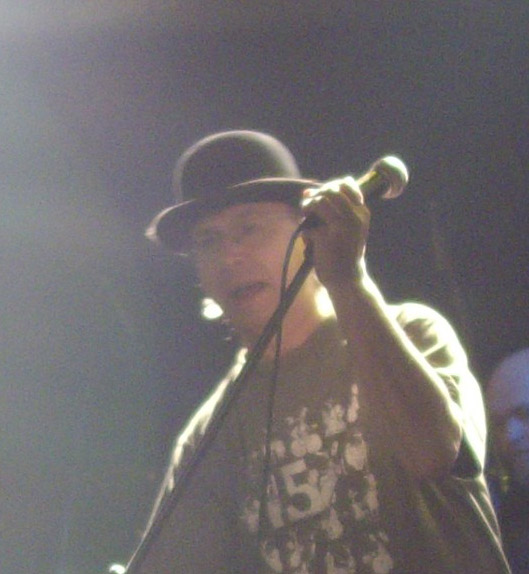 Drummer Ludvík Eman Kandl